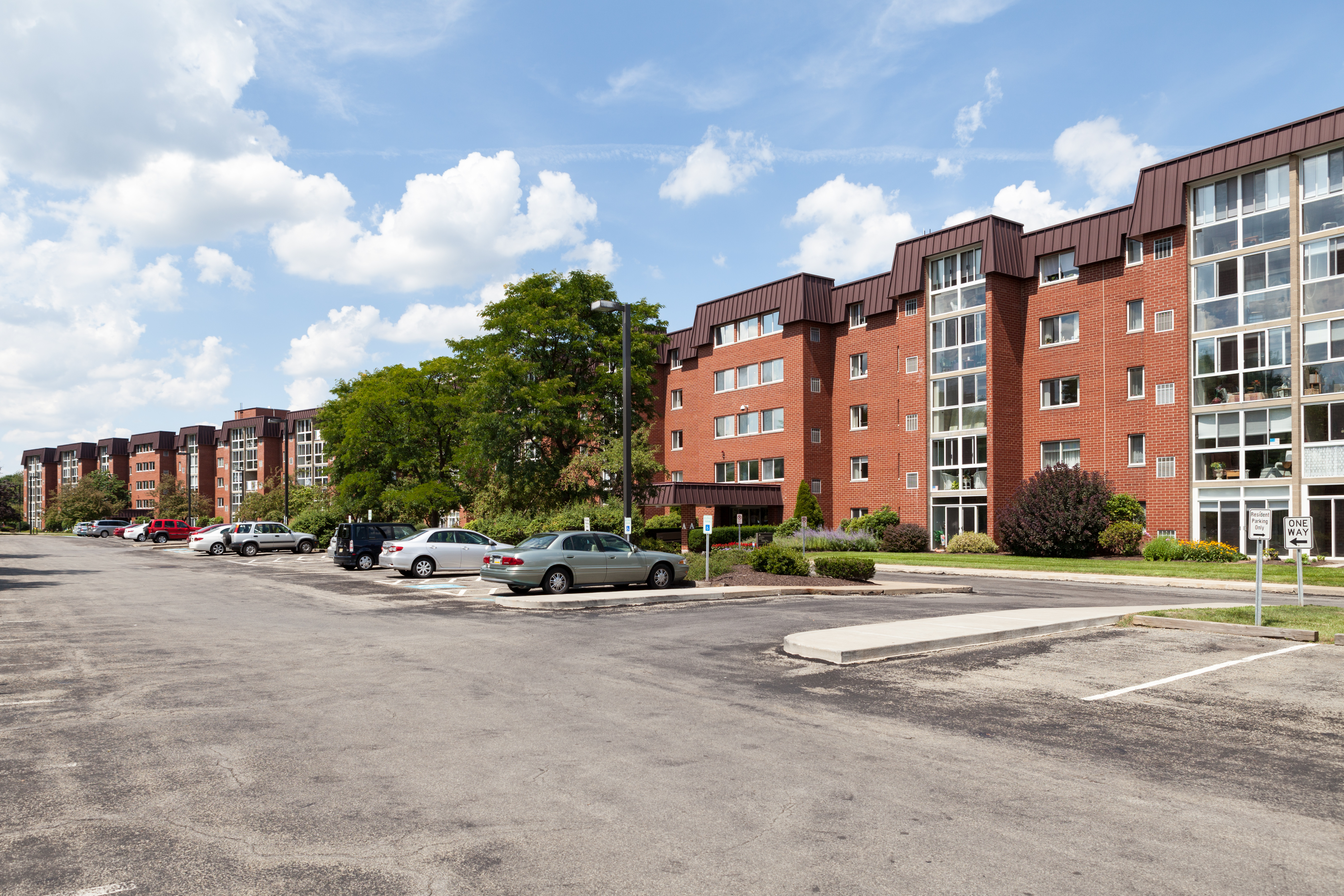 The Village at St. Barnabas, in Richland Township, Allegheny County, Pennsylvania. One of the first retirement villages in Western Pennsylvania. Looking northwest.